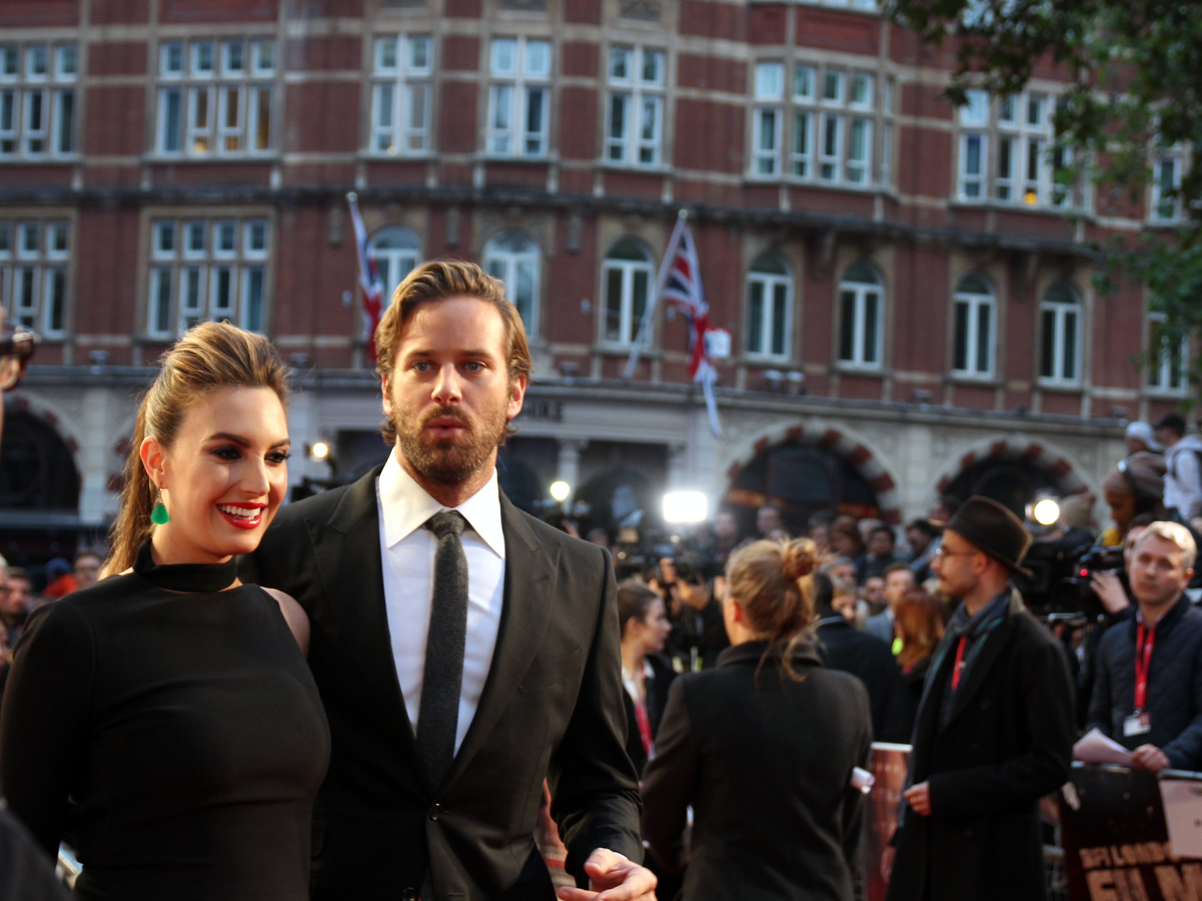 Armie Hammer and Elizabeth Chambers